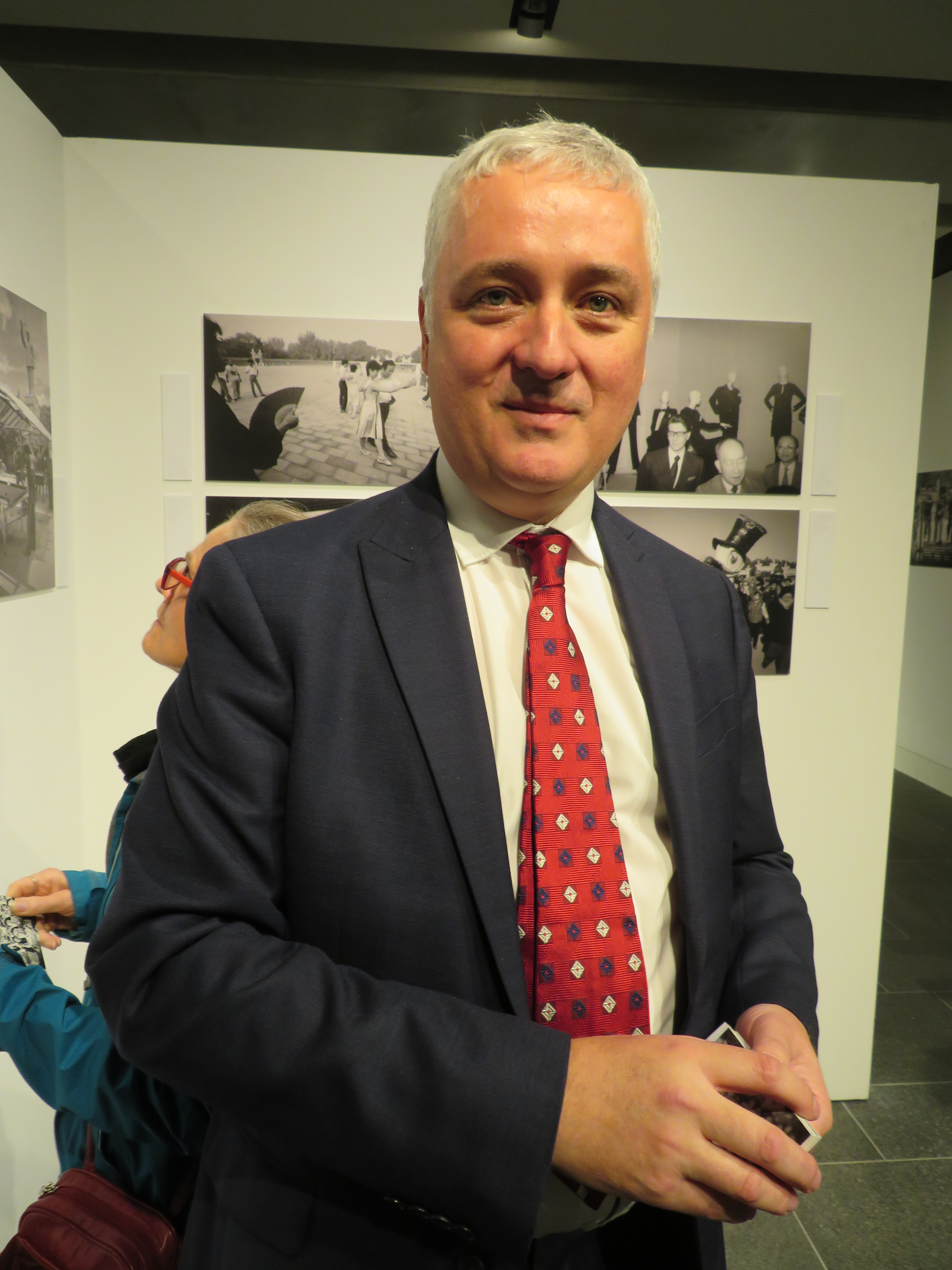 British photographer Adrian Bradshaw at an exhibition of his photographs depicting China in the 1980s (The Door Opened: 1980s China) at Oxford Brookes University. 25 October 2018.